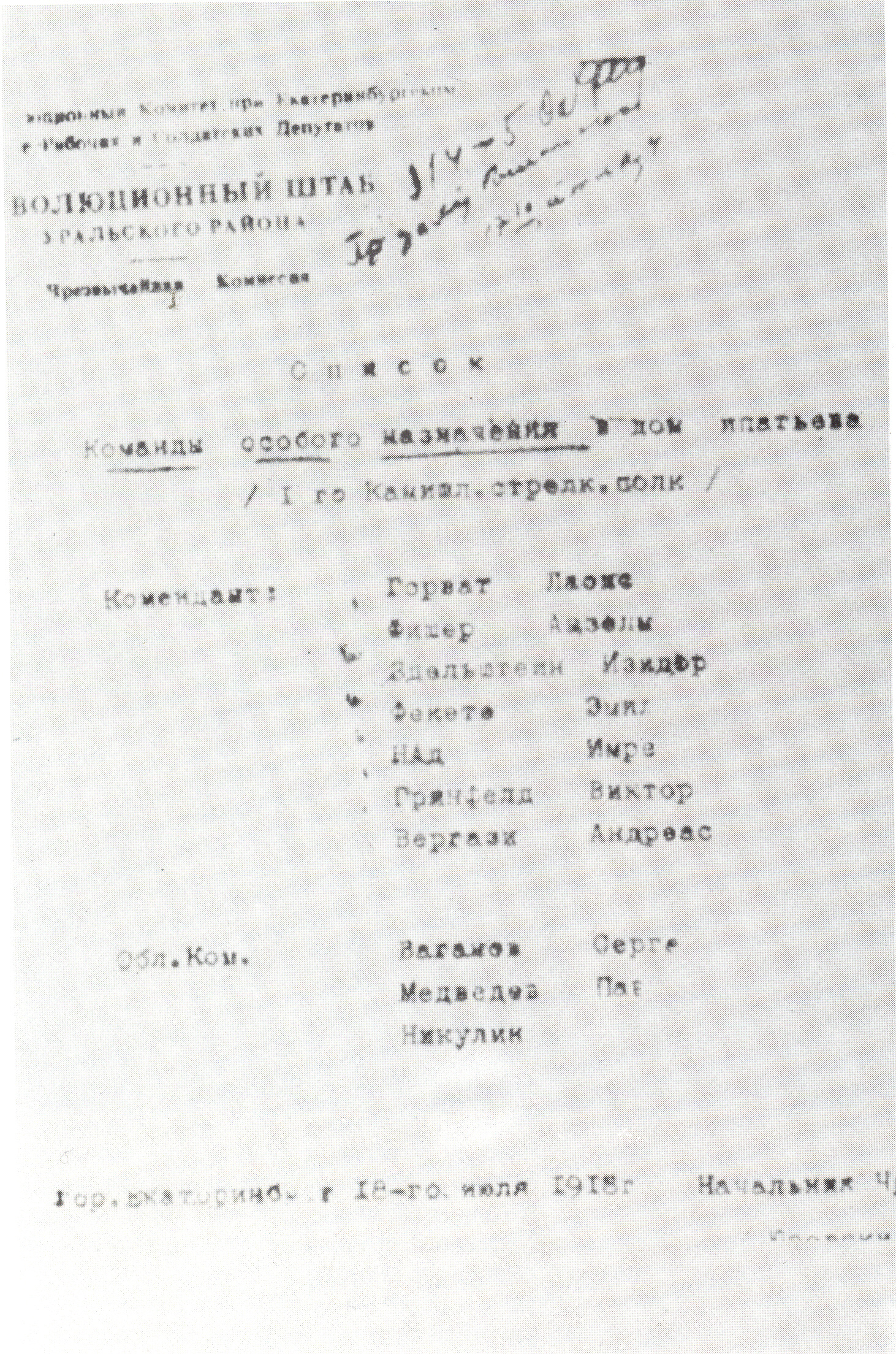 The document, which was allegedly made by Yakov Yurovsky to carry out the execution of the royal family.